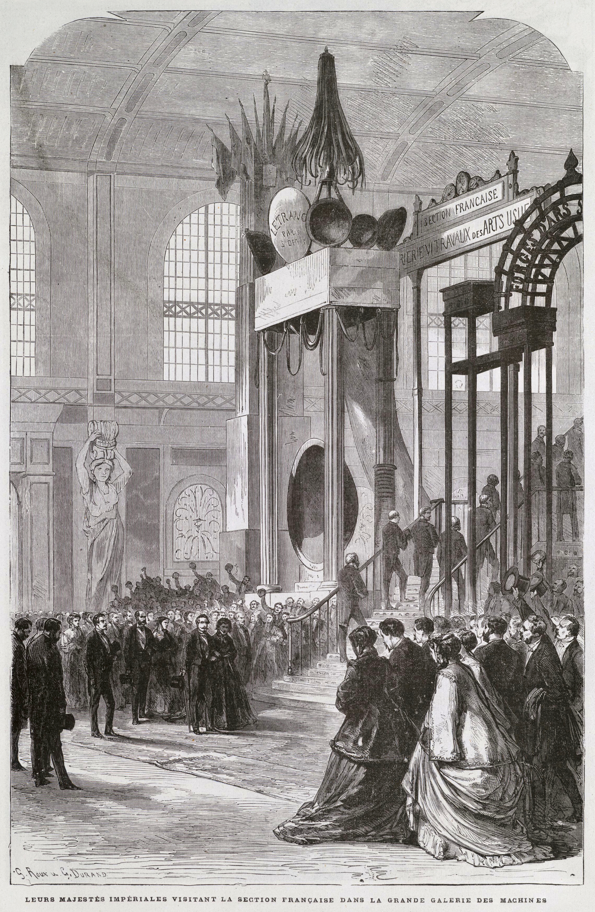 The French Emperor, Napoléon III, and the empress visiting the Galerie des machines, at the 1867 World Fair. Napoléon III and his wife Eugénie were very much involved in the planning of the fair.